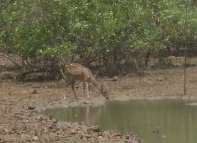 Spotted Deer (Chital) at Guindy National Park